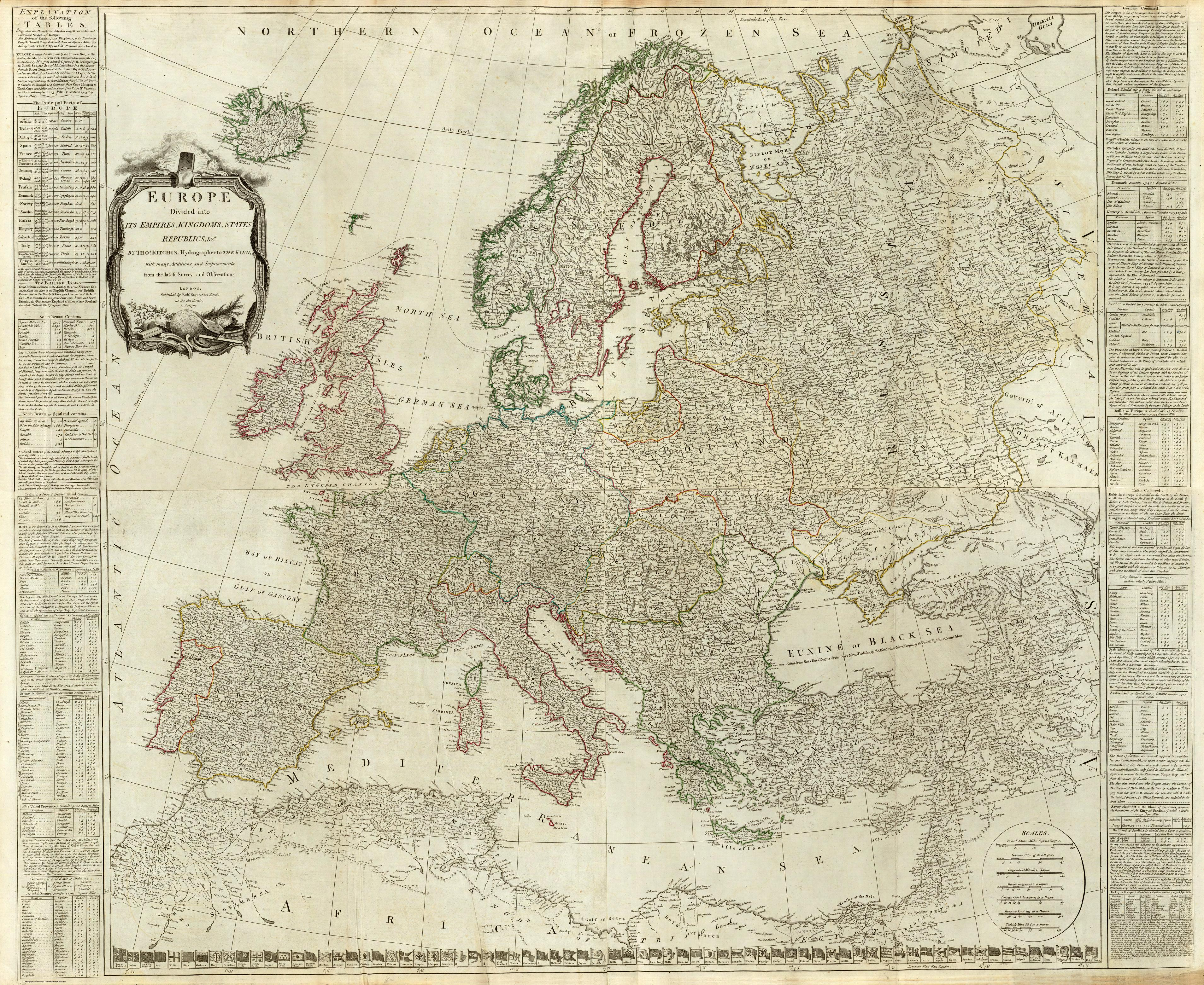 (Composite of) Europe divided into its empires, kingdoms, states, republics, &c. By Thos. Kitchin, Hydrographer to the King, with many additions and improvements from the latest surveys and observations. London, published by Robt. Sayer, Fleet Street, as the Act directs, Jany. 1st, 1787